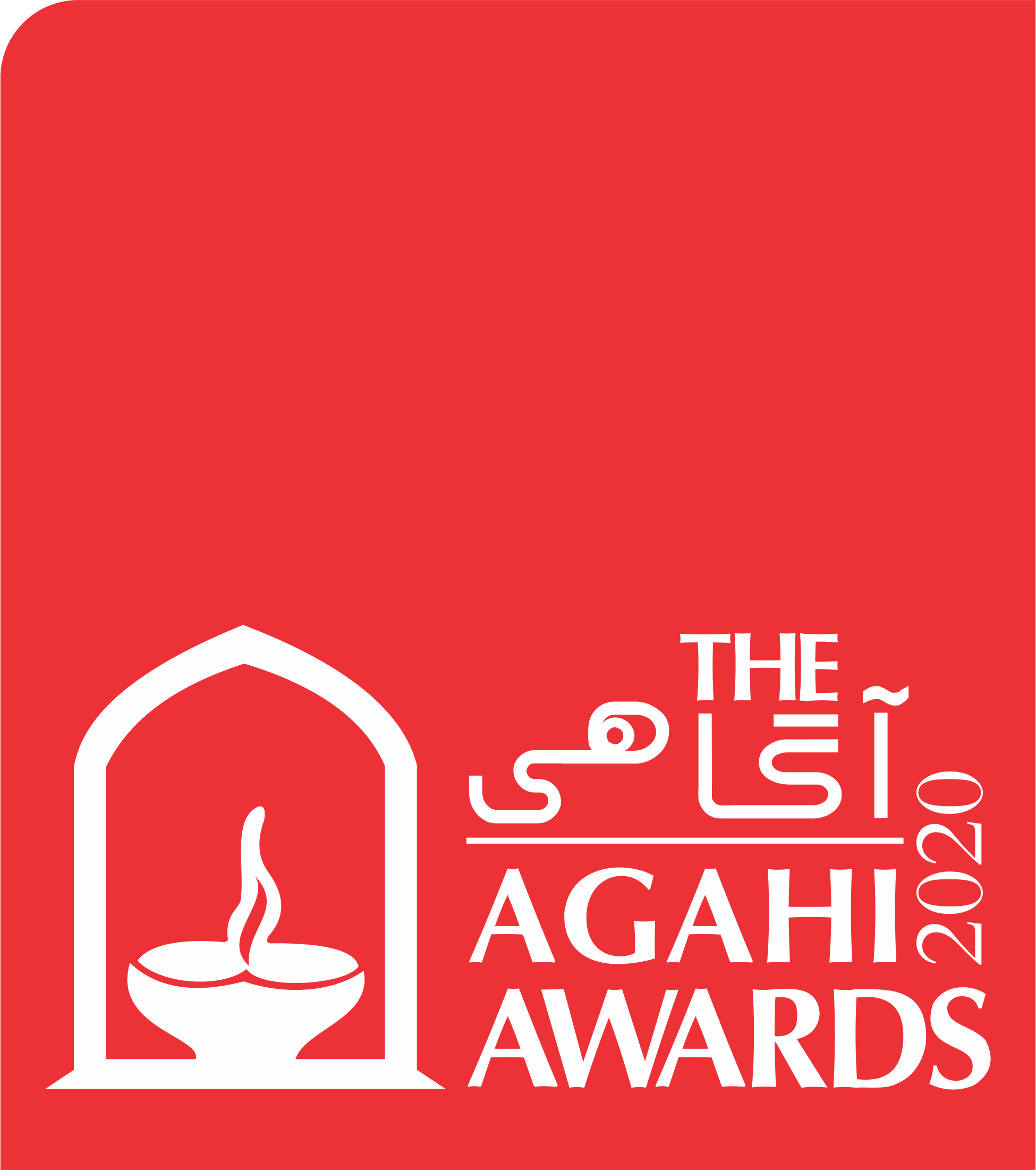 AGAHI Awards 2020